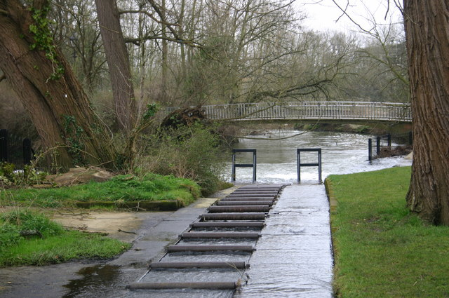 The Rollerway